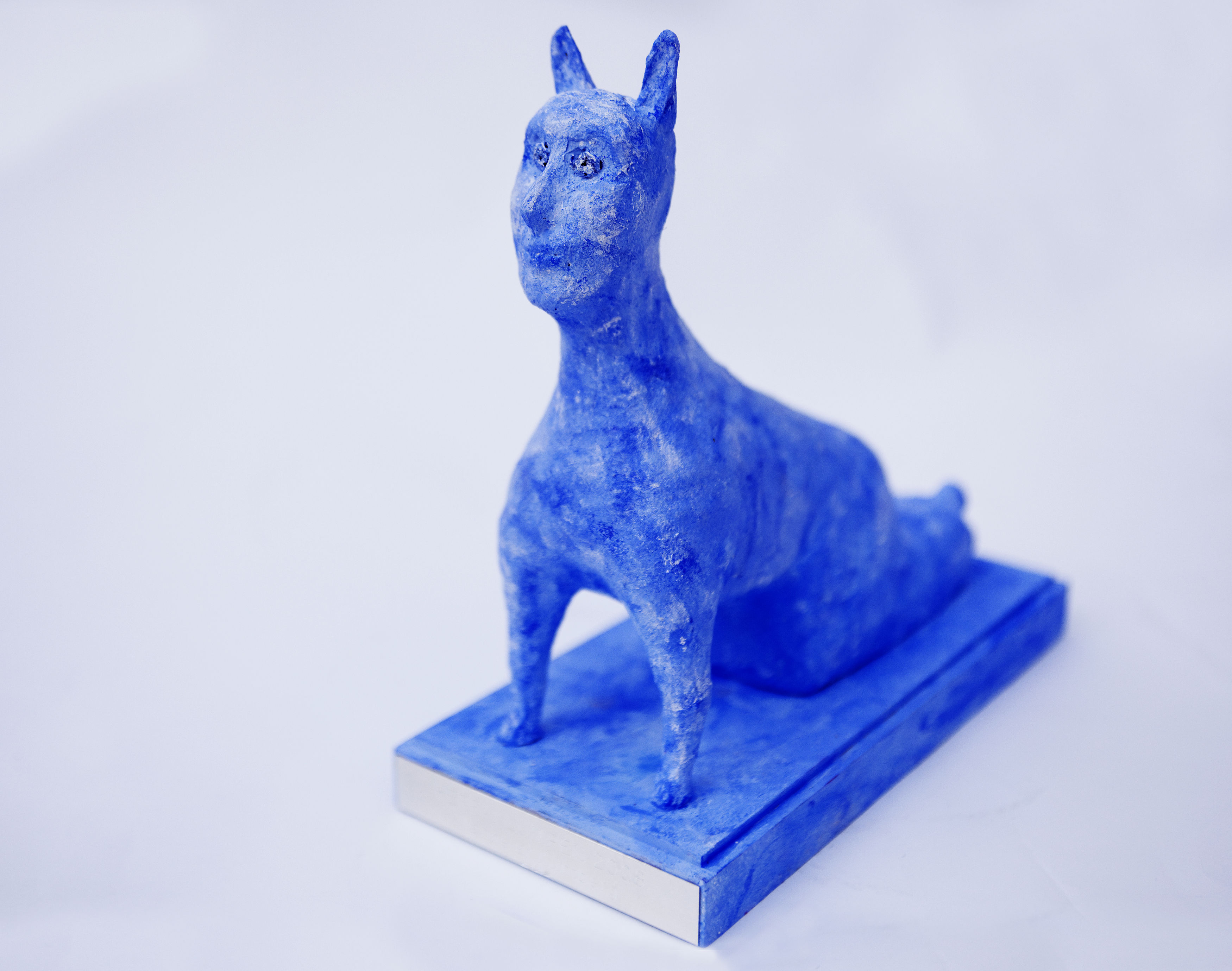 Expressens ungkulturpris "Heffaklumpen". Foto: Linda Forsell